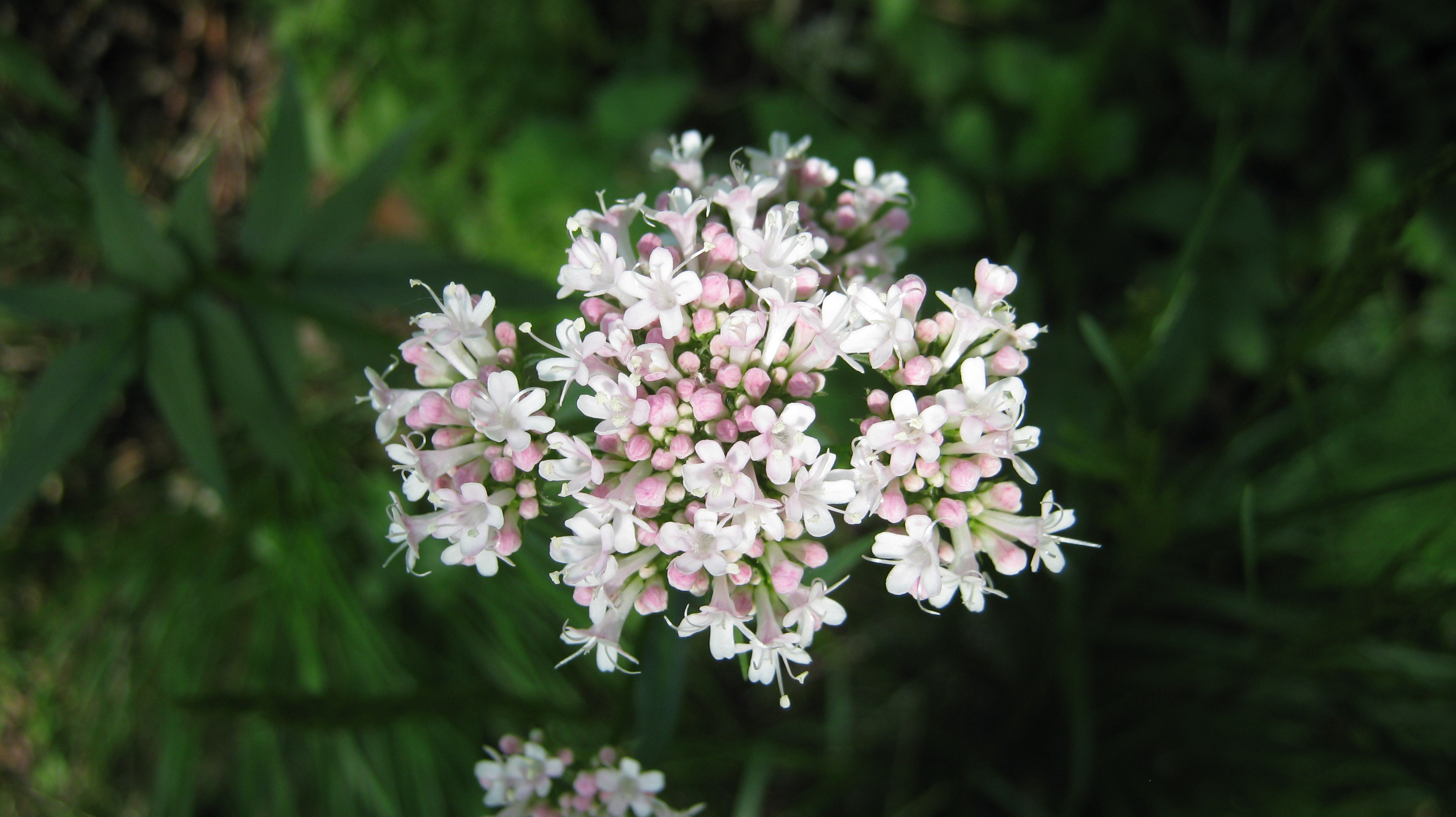 Flower of Valeriana sambucifolia, photograhed in Bergen, NorwayNorsk nynorsk: Blomen til vendelrot, Valeriana sambucifolia, fotografert i Bergen